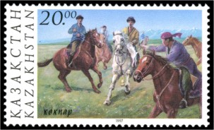 Stamp of Kazakhstan. 1997. December, 30. National sport games. Designed by D. Mukamedjanov. Offset printing on coated paper. Perforation 14. Multicolored. “Bundesdrukerei” Printing House, Berlin. Issued in sheets per 10 (2х5) with margin design. №200. Kokpar. Quantity 100 000. Release (collection) price 24-00т.